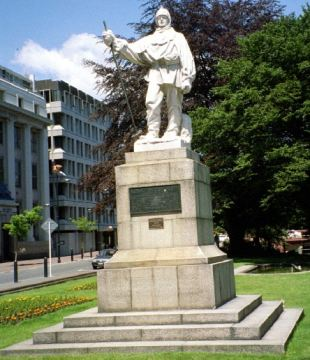 This statue is located in Christchurch, by the Avon River, near the corner of Worcester Street and Oxford Terrace. New Zealand Historic Places Trust Register number: 1840. The upper (larger) plaque reads: ROBERT FALCON SCOTT CAPTAIN ROYAL NAVY WHO DIED RETURNING FROM THE SOUTH POLE 1912 WITH A.E.WILSON H.R.BOWERS L.E.G.OATES E.EVANS I DO NOT REGRET THIS JOURNEY WHICH SHOWS THAT ENGLISHMEN CAN ENDURE HARDSHIPS HELP ONE ANOTHER AND MEET DEATH WITH AS GREAT FORTITUDE AS EVER IN THE PAST The smaller plaque reads: This statue was sculpted by KATHLEEN SCOTT FRSBS (1878-1947) Widow of CAPTAIN SCOTT and was unveiled in 1917. The "I do not regret..." quote is repeated on the lower inscription on the plinth.